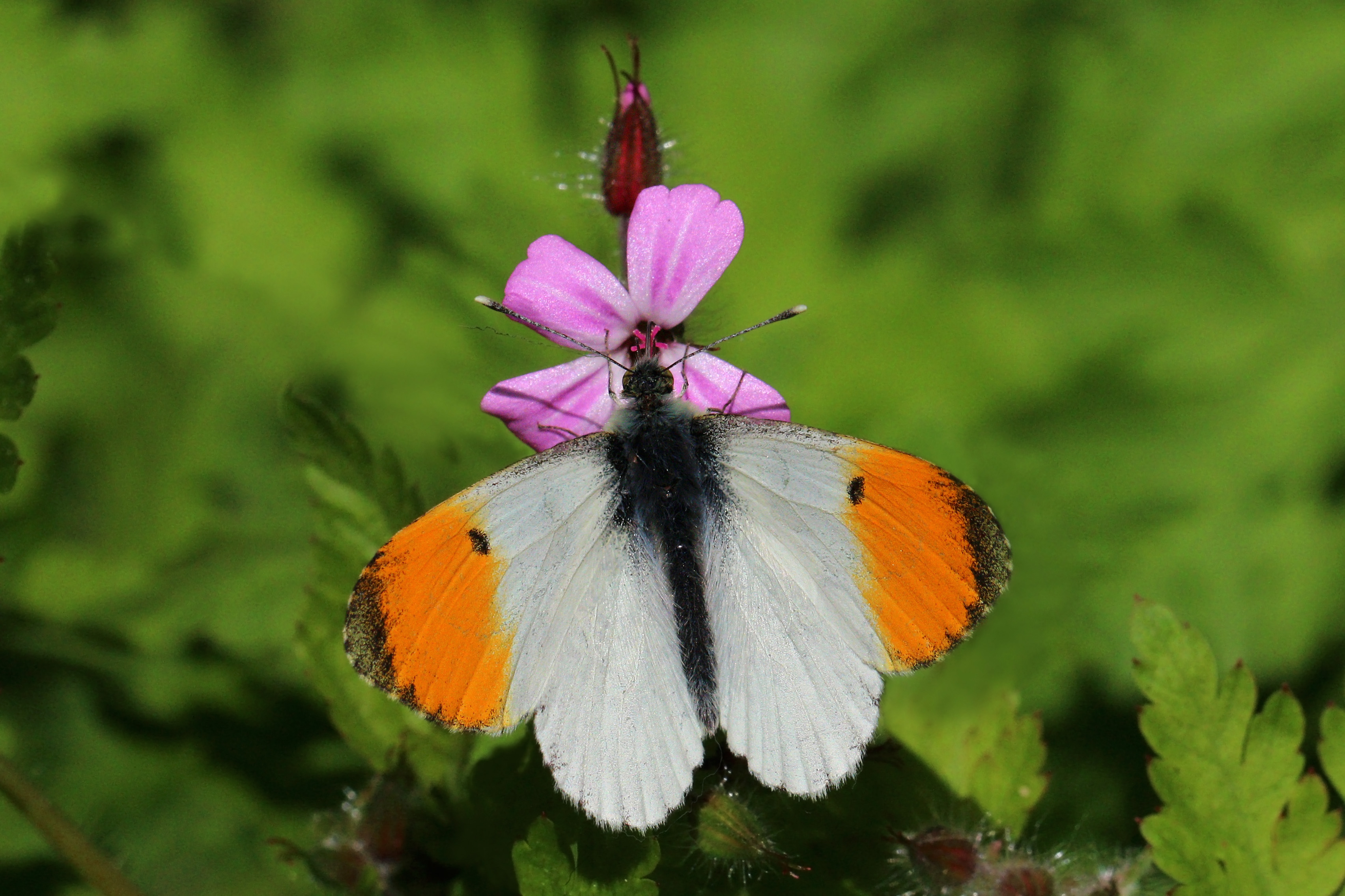 Orange tip (Anthocharis cardamines) male, Oxfordshire